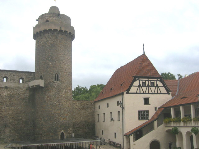 Second countryard of the Castle StrakoniceEsperanto: La dua korto de la burgo en Strakonice (Ĉeĥujo, Sudbohemia regiono